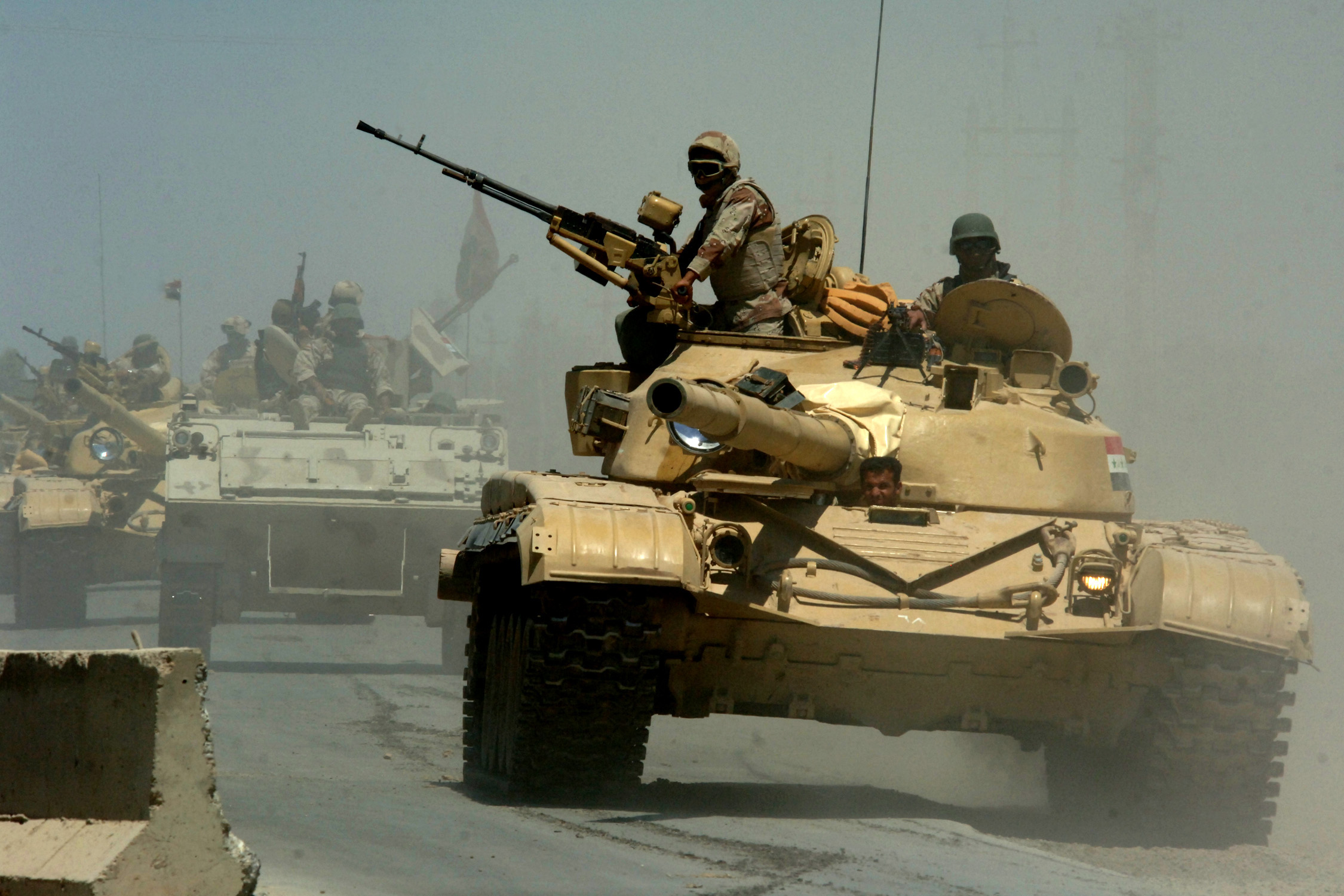 Iraqi T-72 tanks and Talha APC from the Iraqi Army 9th Mechanized Division pass through a highway checkpoint in Mushahada, Iraq on their way to Forward Operating Base Camp Taji, Iraq.